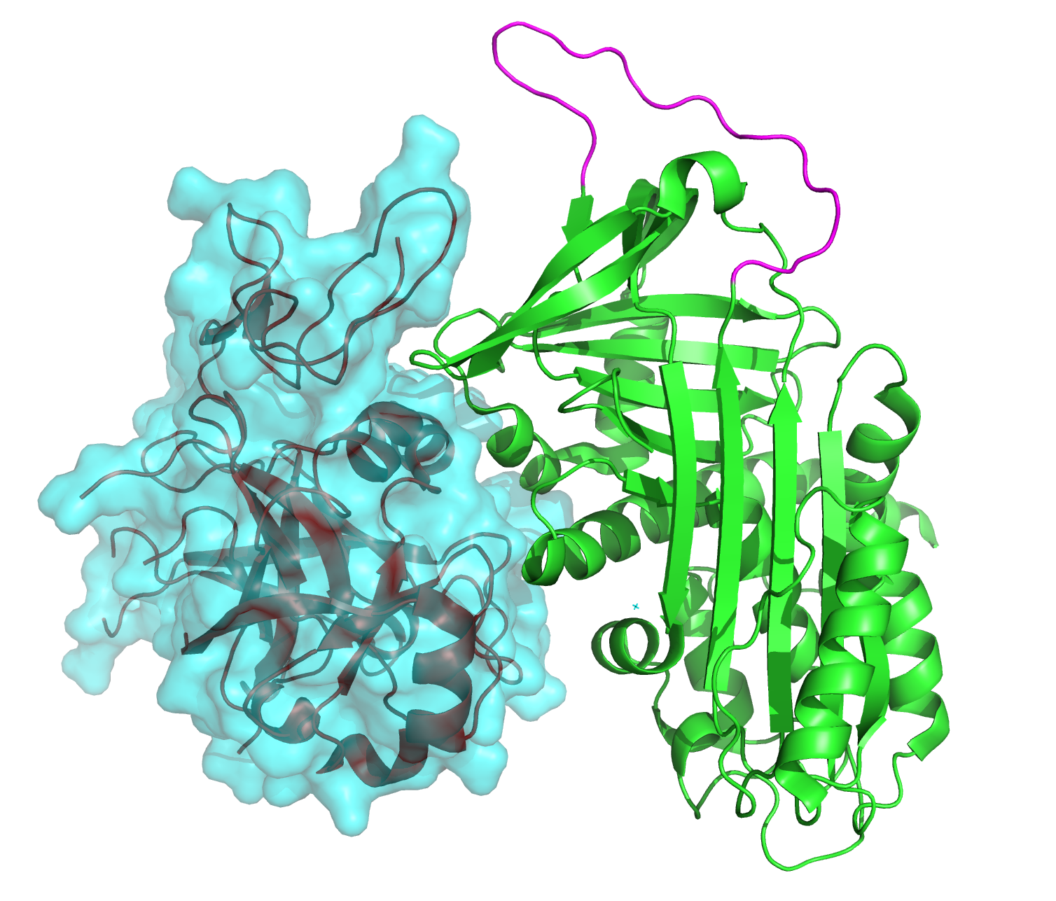 The X-ray crystal structure of protein Z Inhibitor in Complex with Protein Z (Wei et al., 2009, Blood)